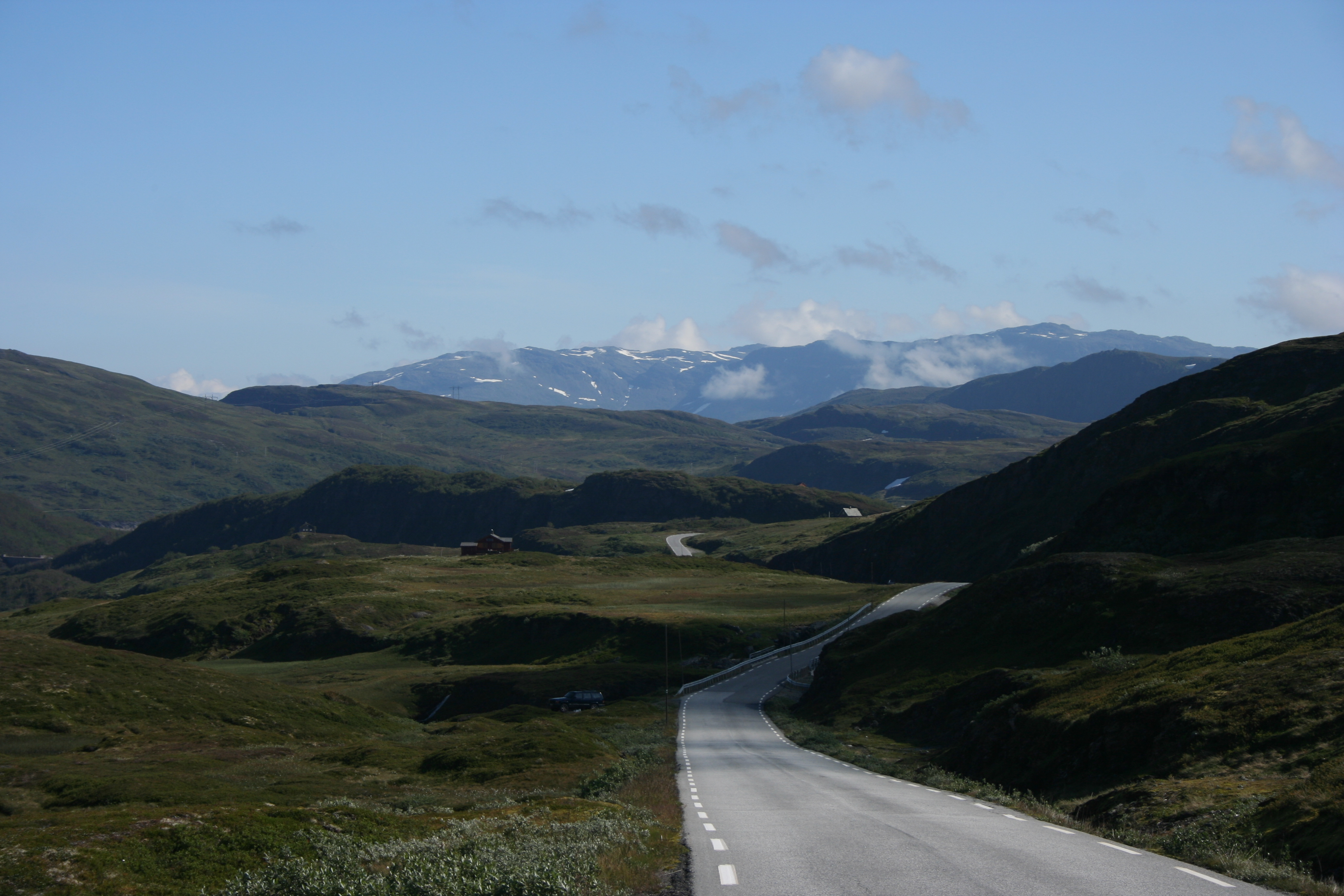 Rv13 road over Vikafjellet